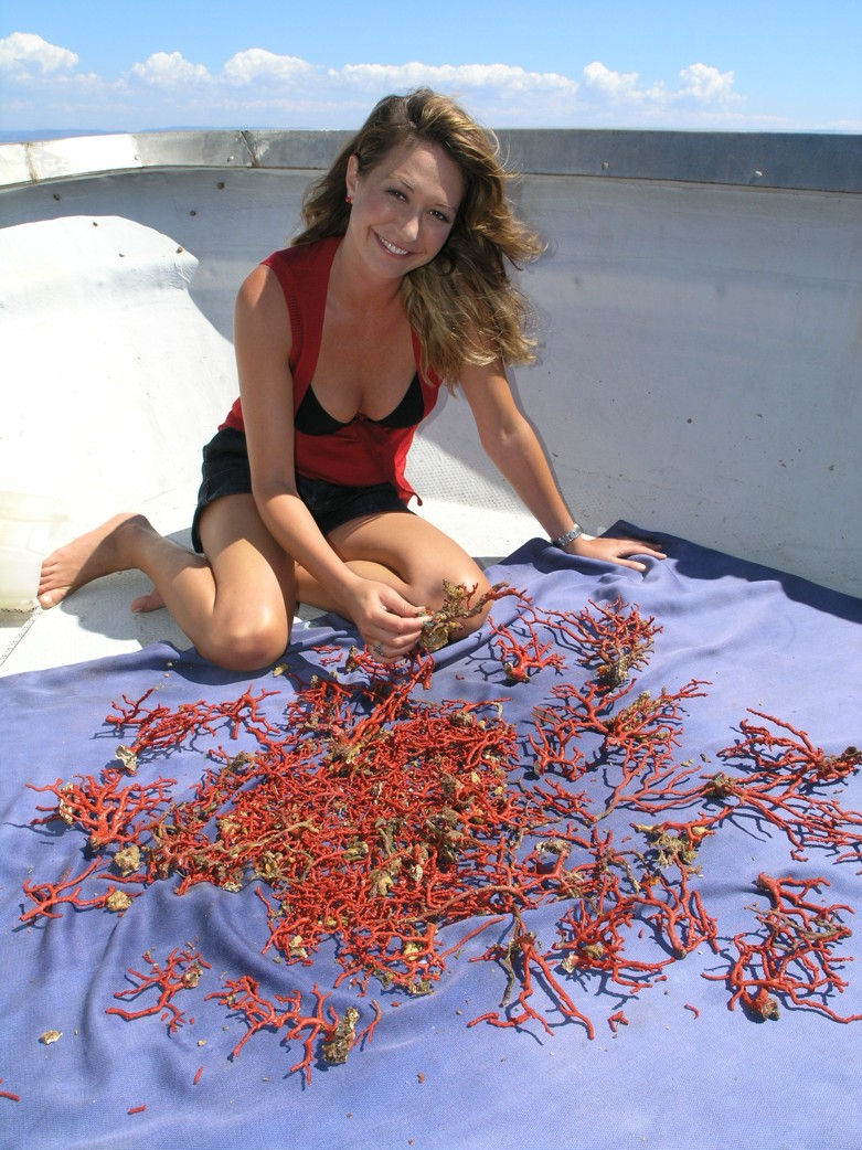 Tessa Gelisio conduct the Pianeta Mare program in Alghero about the red coral fishing.